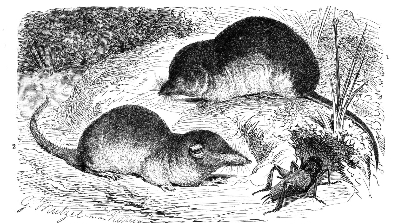 1) Eurasian shrew, Sorex araneus L. (Text page 84), and 2) White toothed shrew, Crocidura russula Herm. (Text page 88). Natural size.